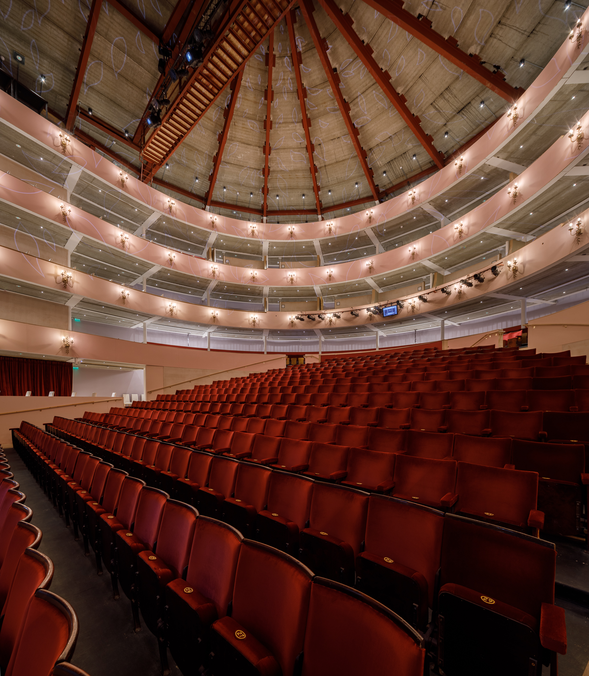 The 700 seat auditorium